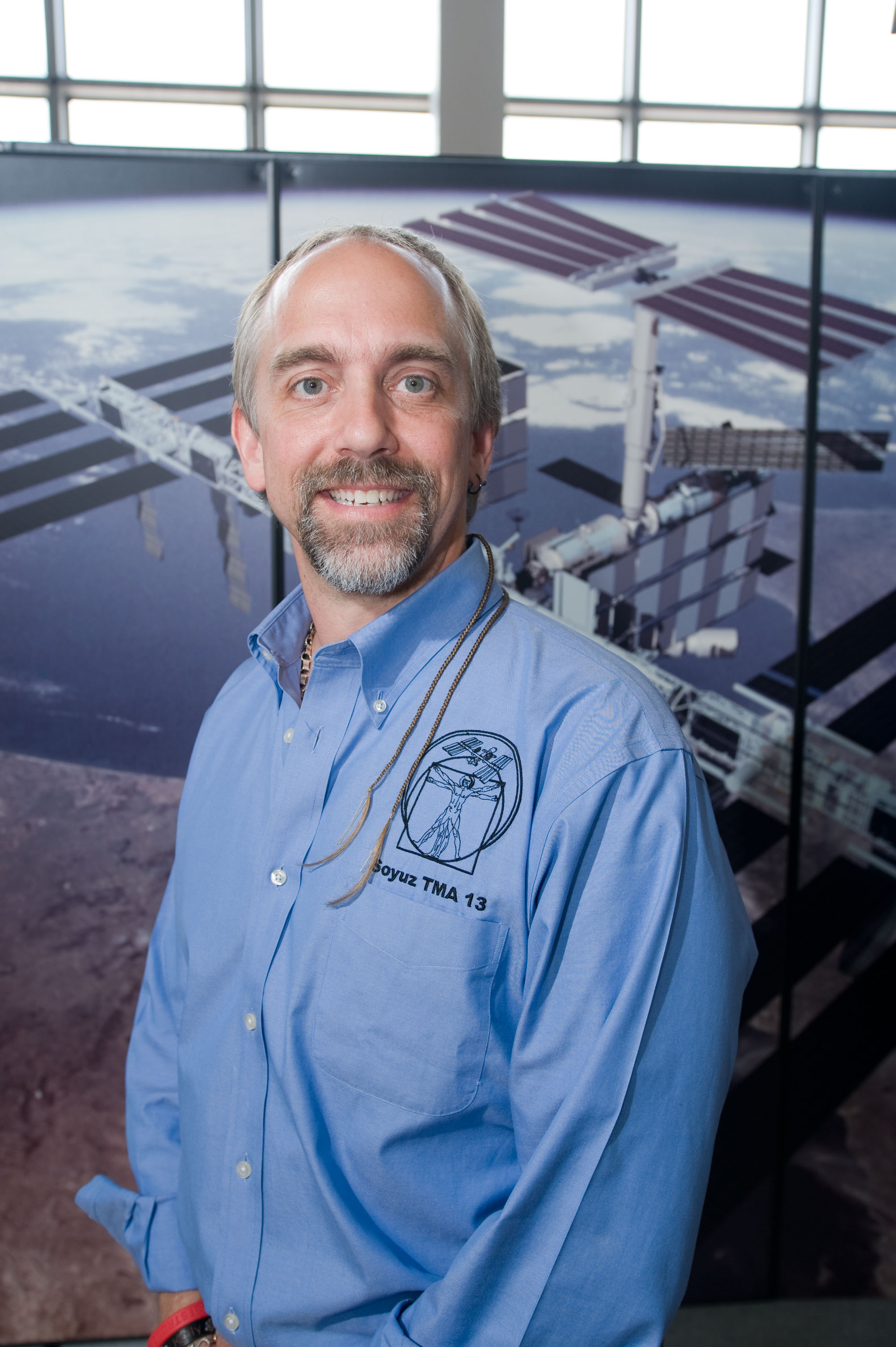 American spaceflight participant Richard Garriott poses for a portrait following an Expedition 18/Soyuz 17 pre-flight press conference at NASA's Johnson Space Center. Garriott is scheduled to fly to the International Space Station in October under a commercial agreement with the Russian Federal Space Agency.